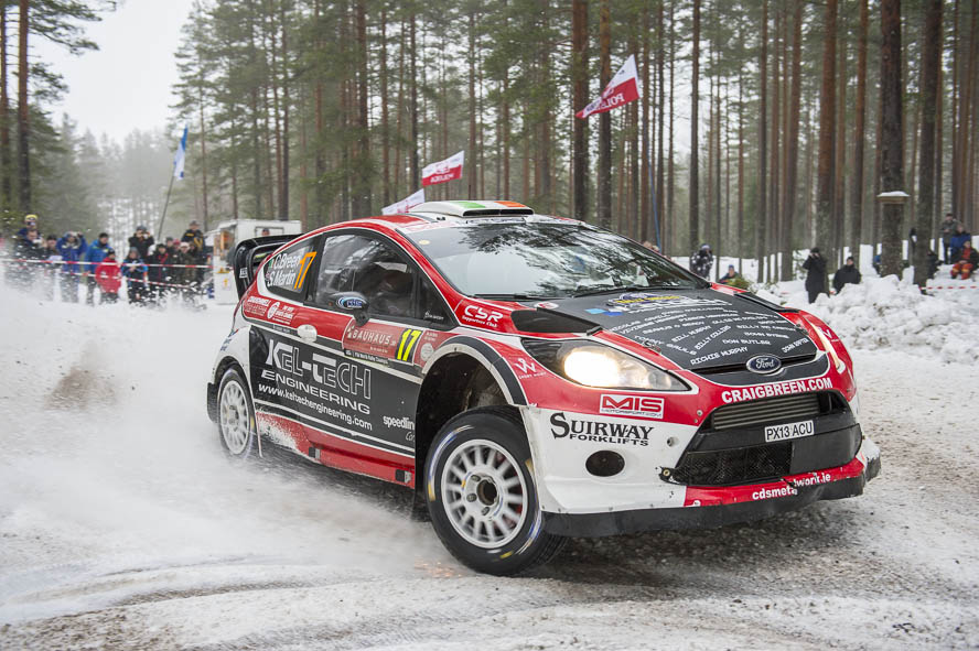 Rally Sweden 2014 Craig Breen,Ford Fiesta RS WRC,Fredriksberg 1,Motorsport,Rally,Rally Sweden,Rallye,Rallye Schweden,SS9,Scott Martin,WP9